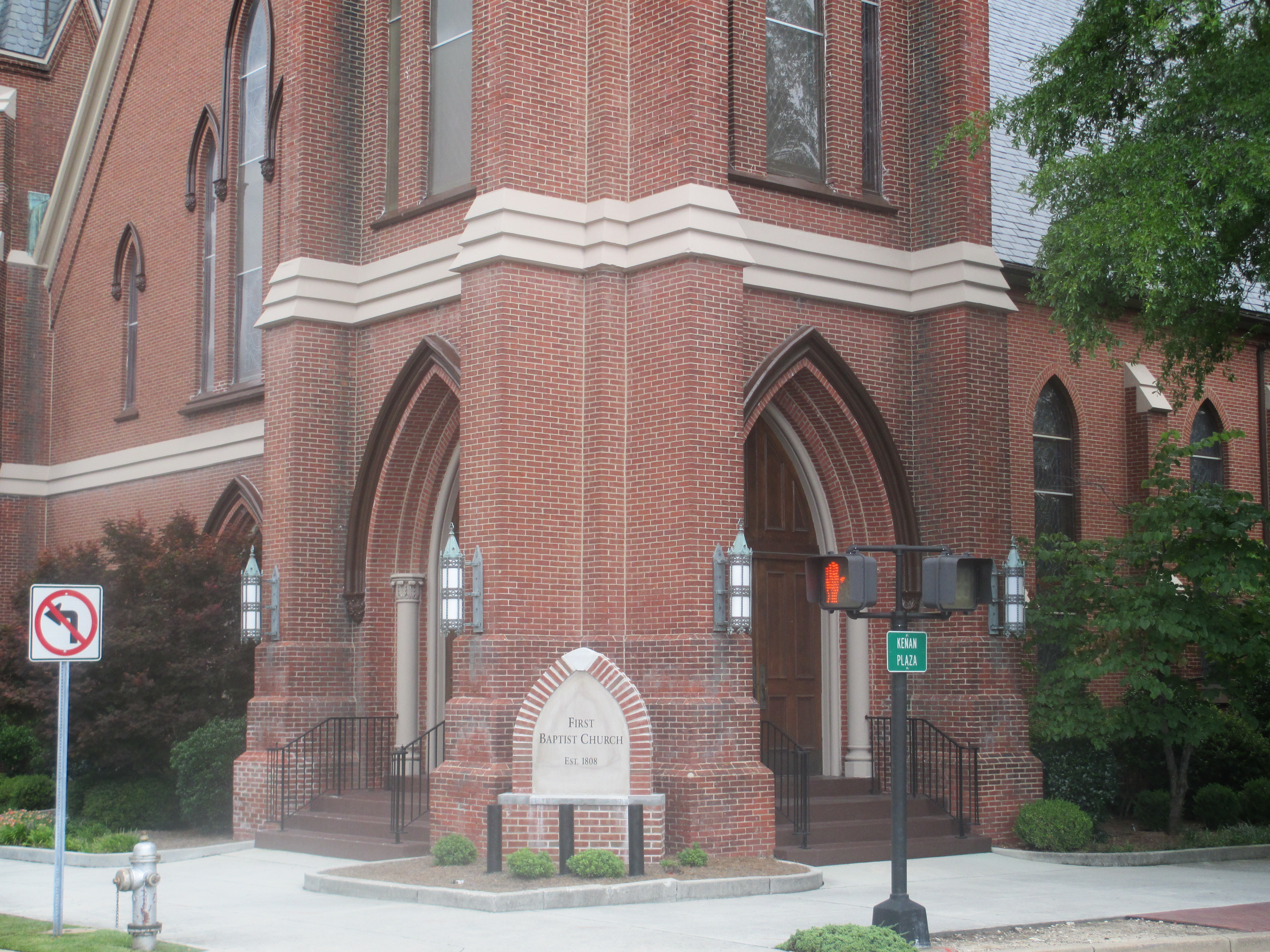 I took photo with Canon camera of First Baptist Church (est. 1808) in Wilmington, NC.